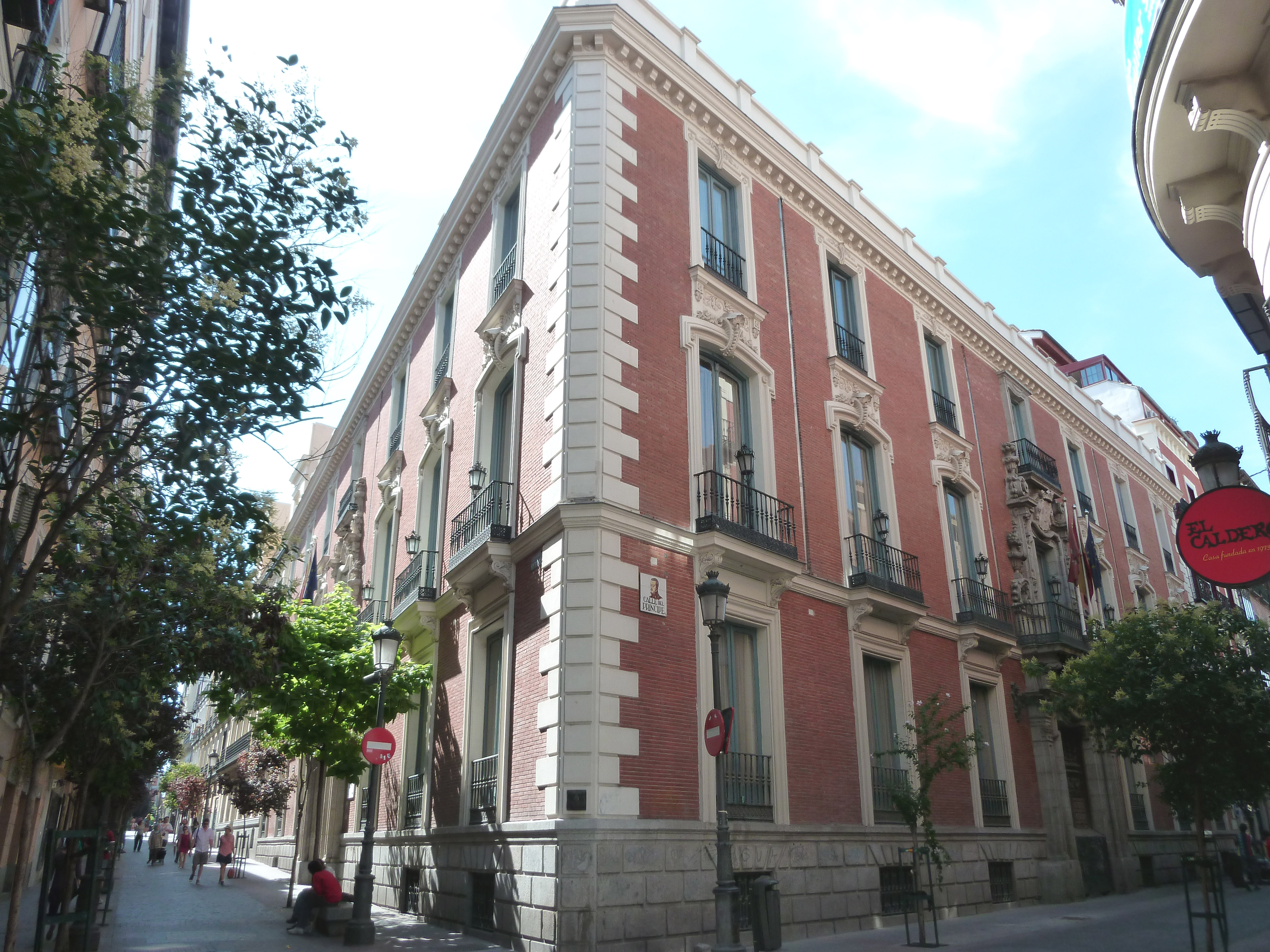 Façade of Santoña Palace in Madrid (Spain), at 13 Calle de las Huertas (street) in Centro district. Alteration projected in 1731 by Pedro de Ribera and built between 1731 and 1735.